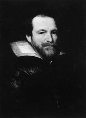 Sir Ralph Winwood, by A. van Blyenberch, 1613, Boughton House, Northamptonshire.